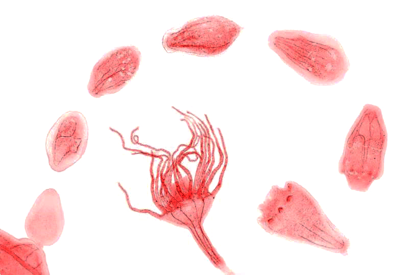 Metamorphosis - process of transition from planuloid bud of upside-down jellyfish Cassopeia xamachana to polyp. Tht's a series confocal images, showing development of musculture.